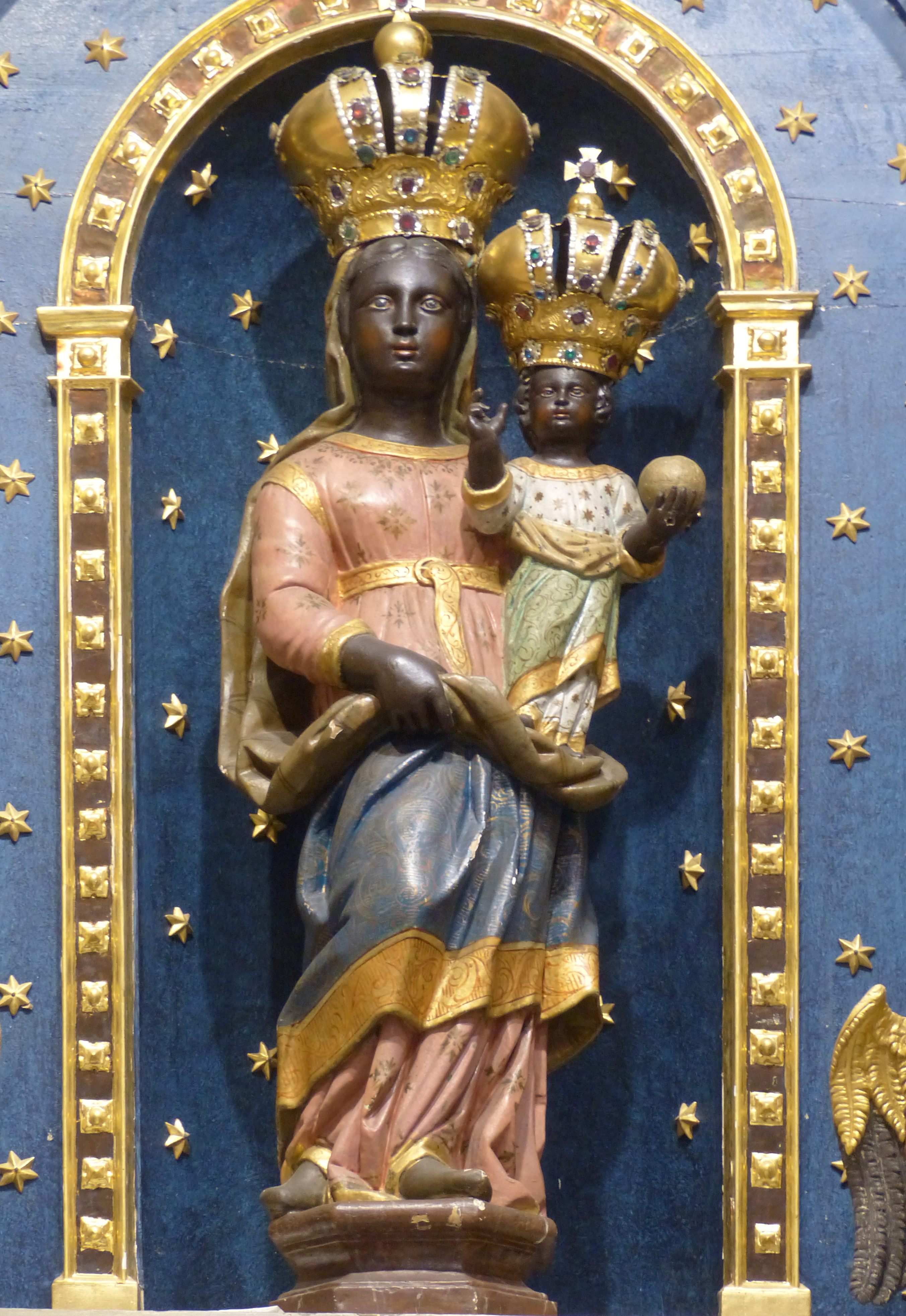 Thyrnau ( Lower Bavaria ). Loreto chapel ( 1699 ) - Altar: Madonna.This is a photograph of an architectural monument.